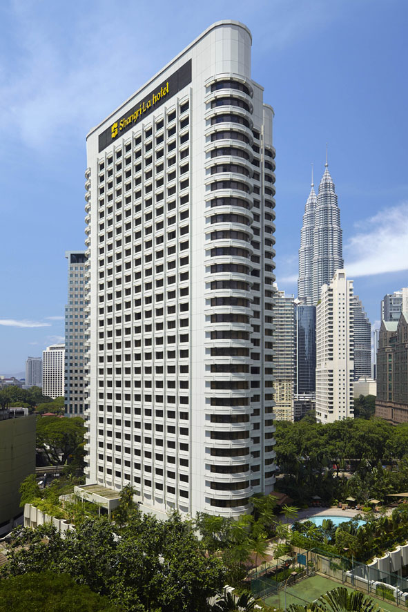 Exterior of Shangri-La Kuala Lumpur